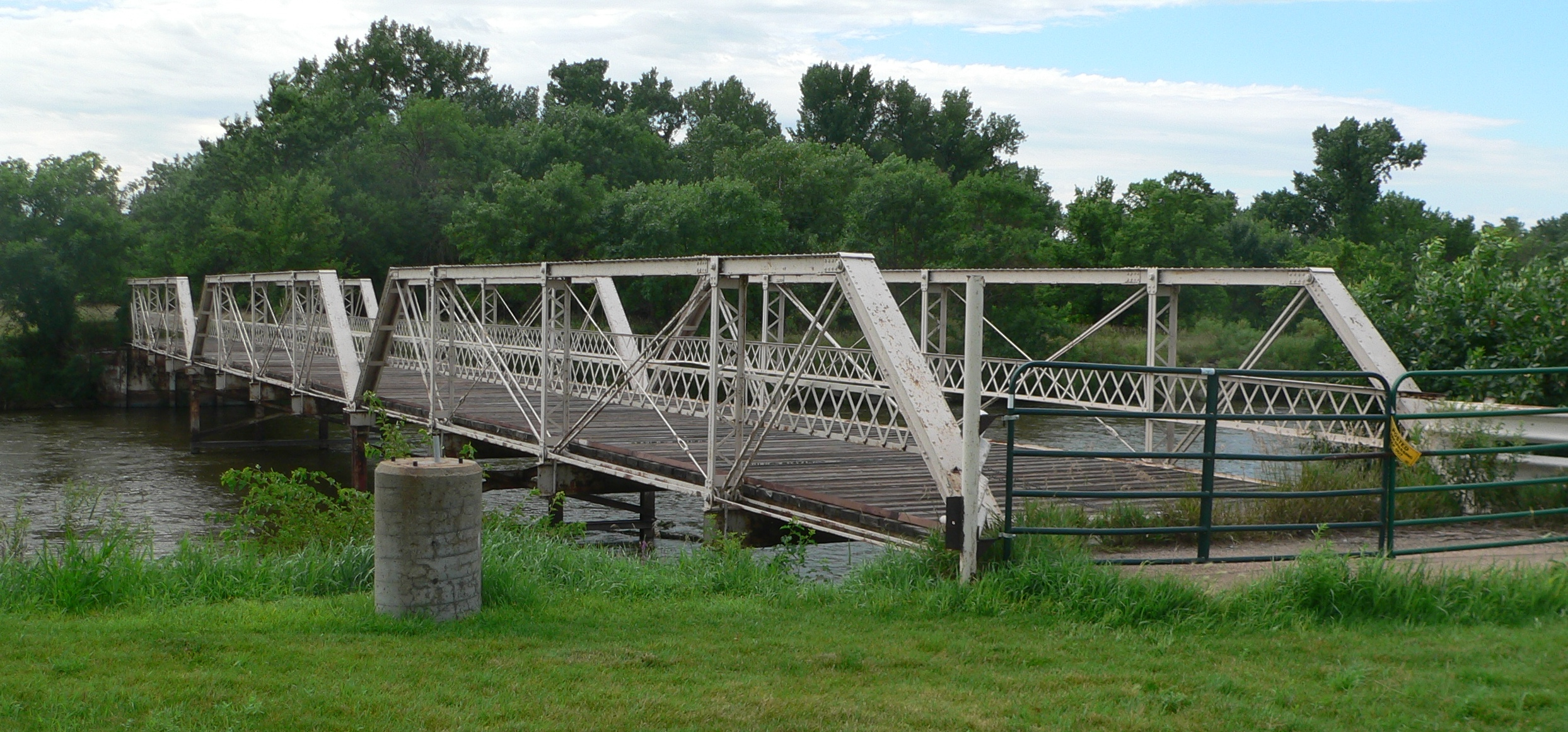 Nine Bridges Bridge, crossing a channel of the Platte River just west of U.S. Highway 281, south of Grand Island, Nebraska; seen from the southeast (downstream is left). The bridge is listed in the National Register of Historic Places.